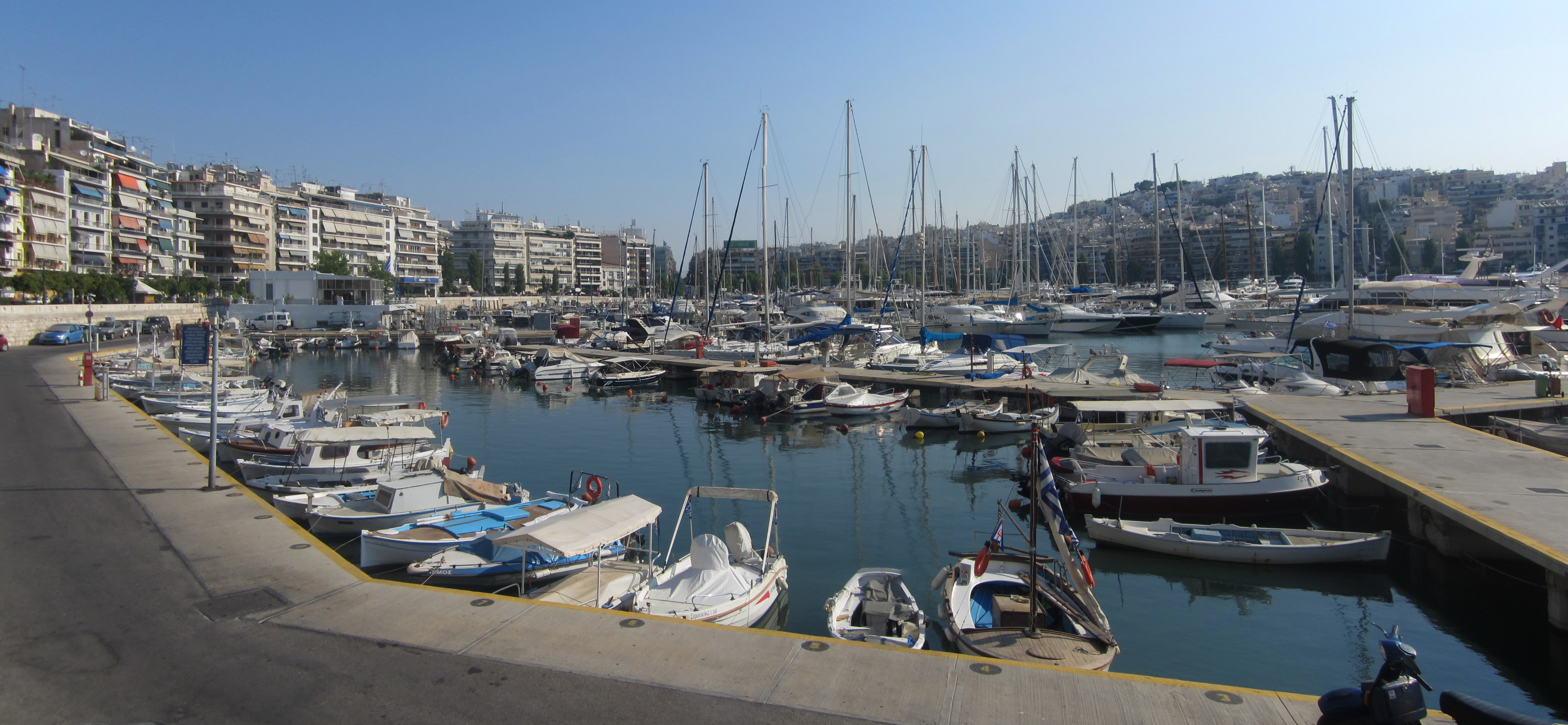 Zea harbour, Piraeus, Greece.